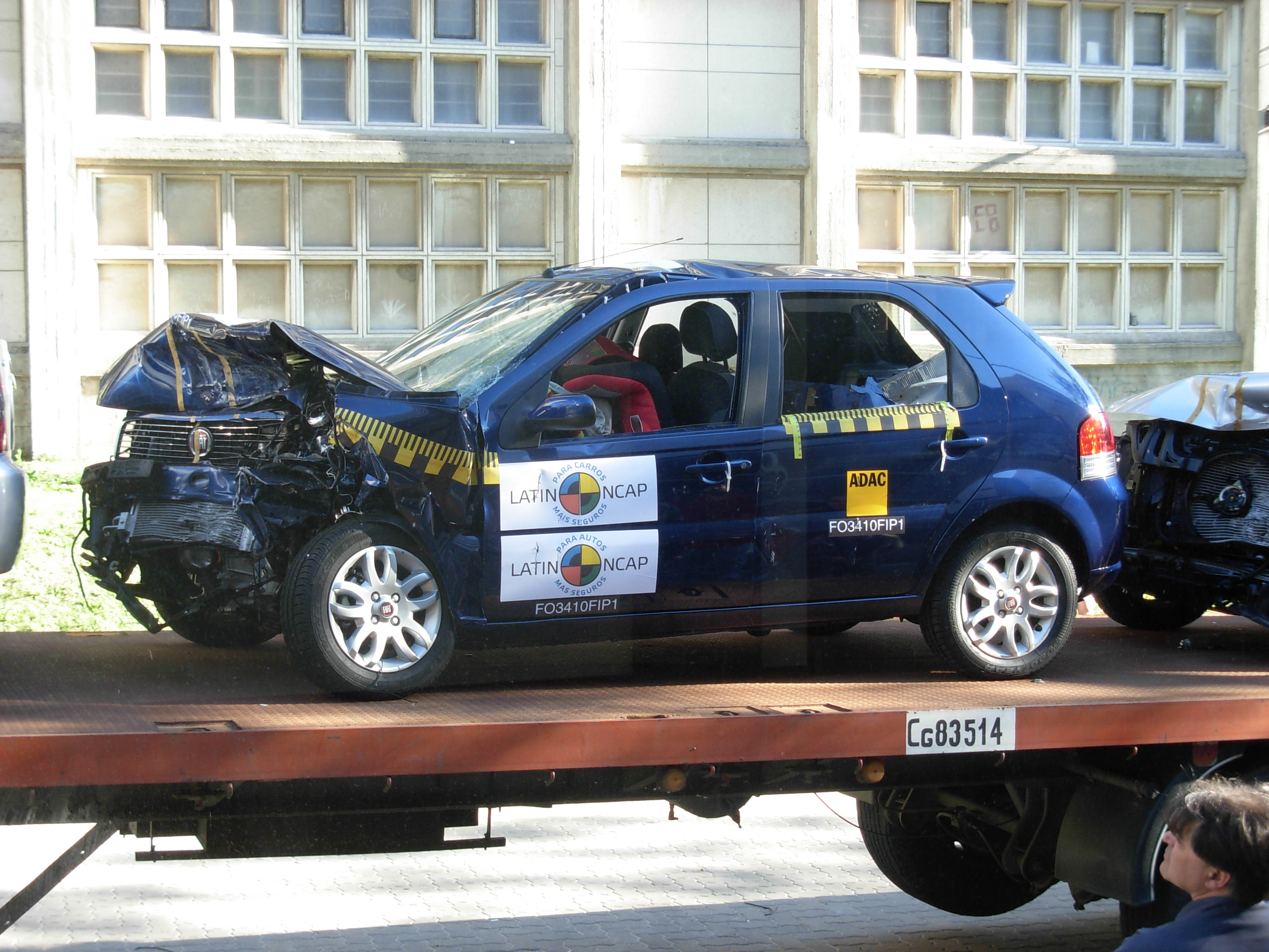 Fiat Palio IV car crashed by the LatinNCAP in 2010, pictured at the Facultad de Ingeniería de la Universidad de la República in Montevideo, Uruguay.